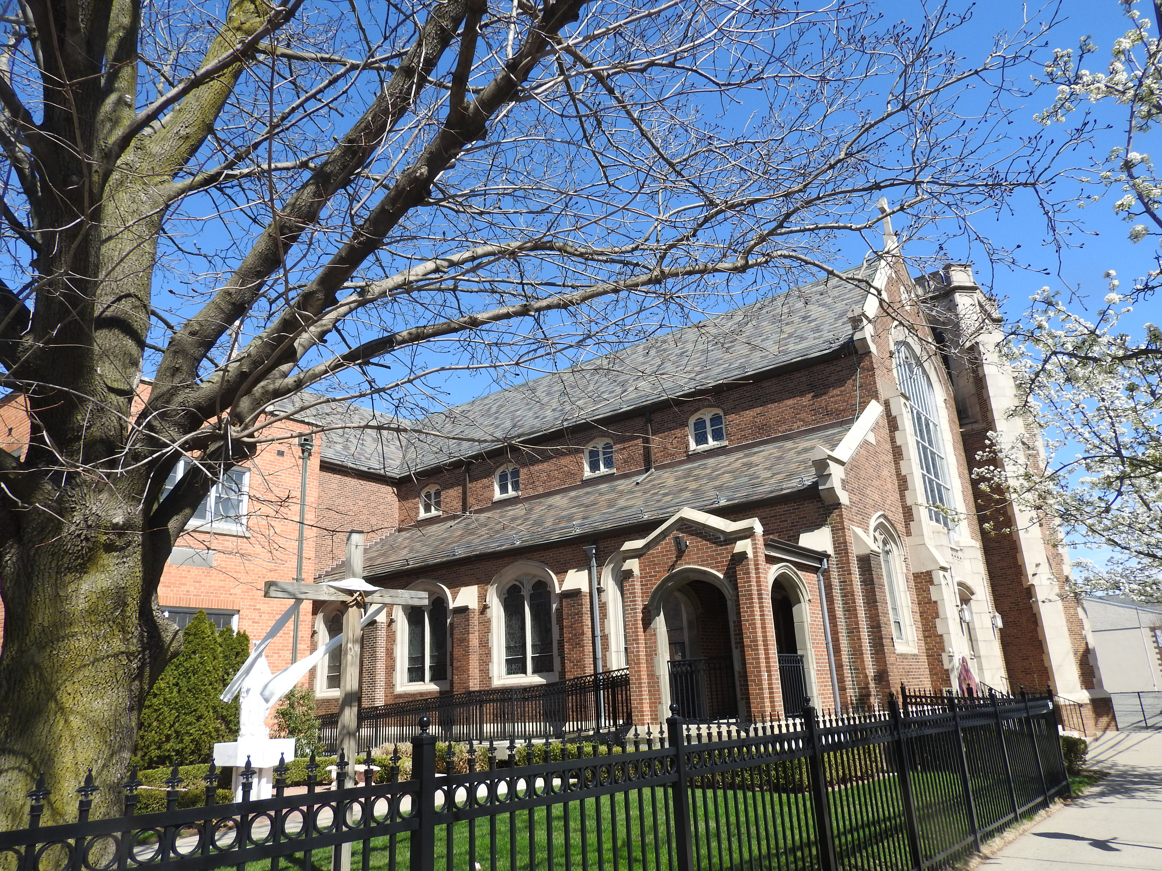 Looking east at church